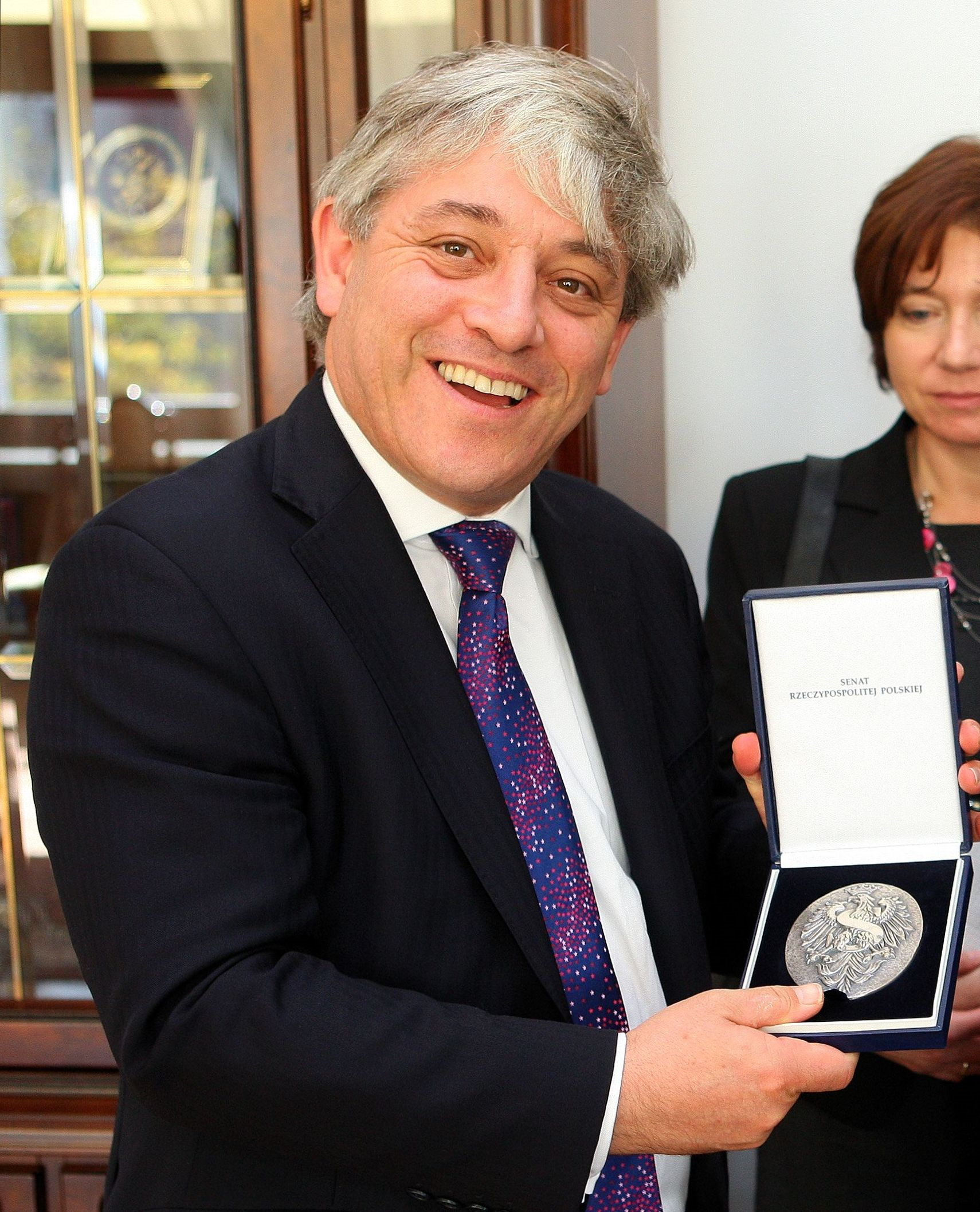 Speaker of the House of Commons John Bercow in the Polish Senate